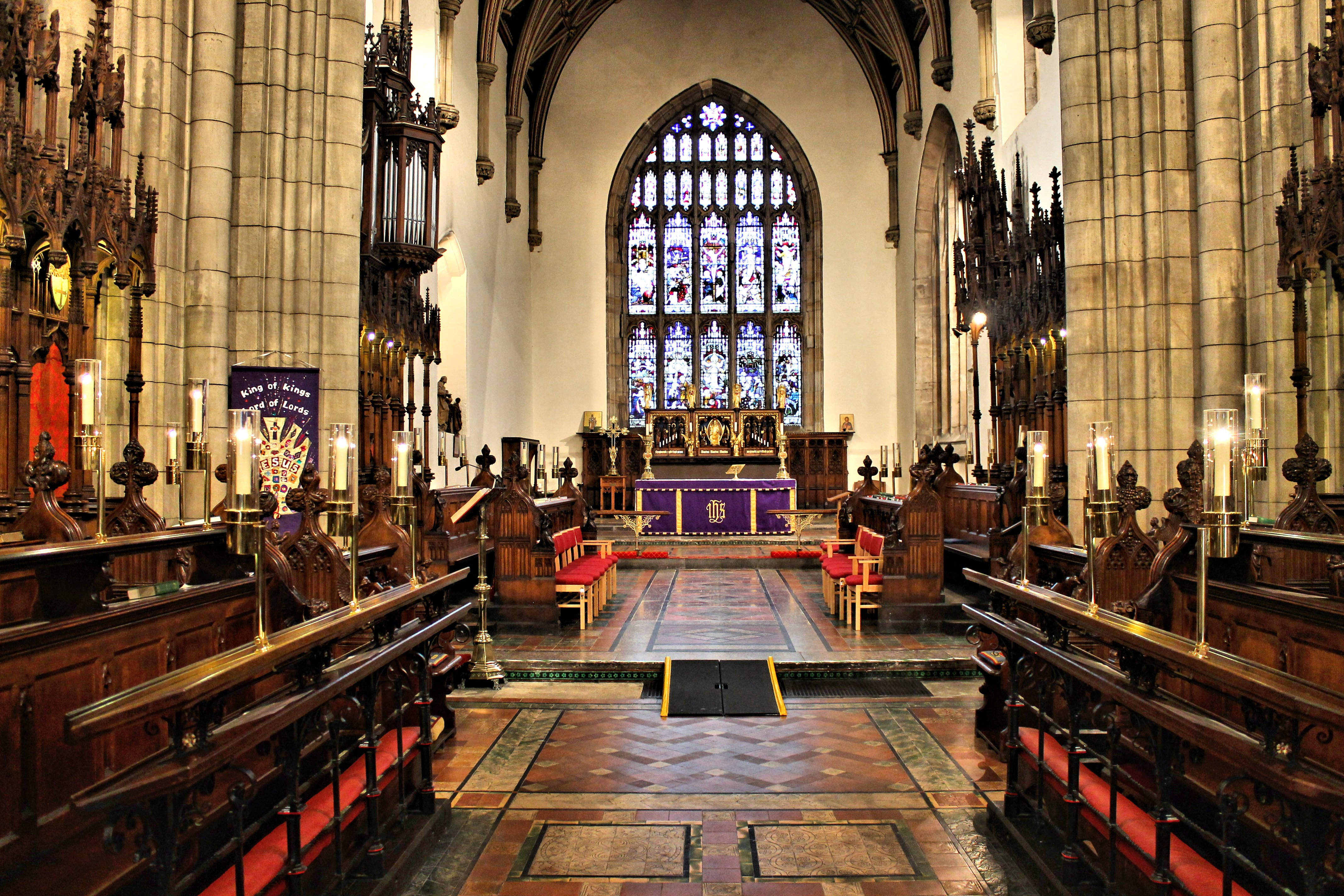 Bangor Cathedral, Bangor, Gwynedd, North Wales.